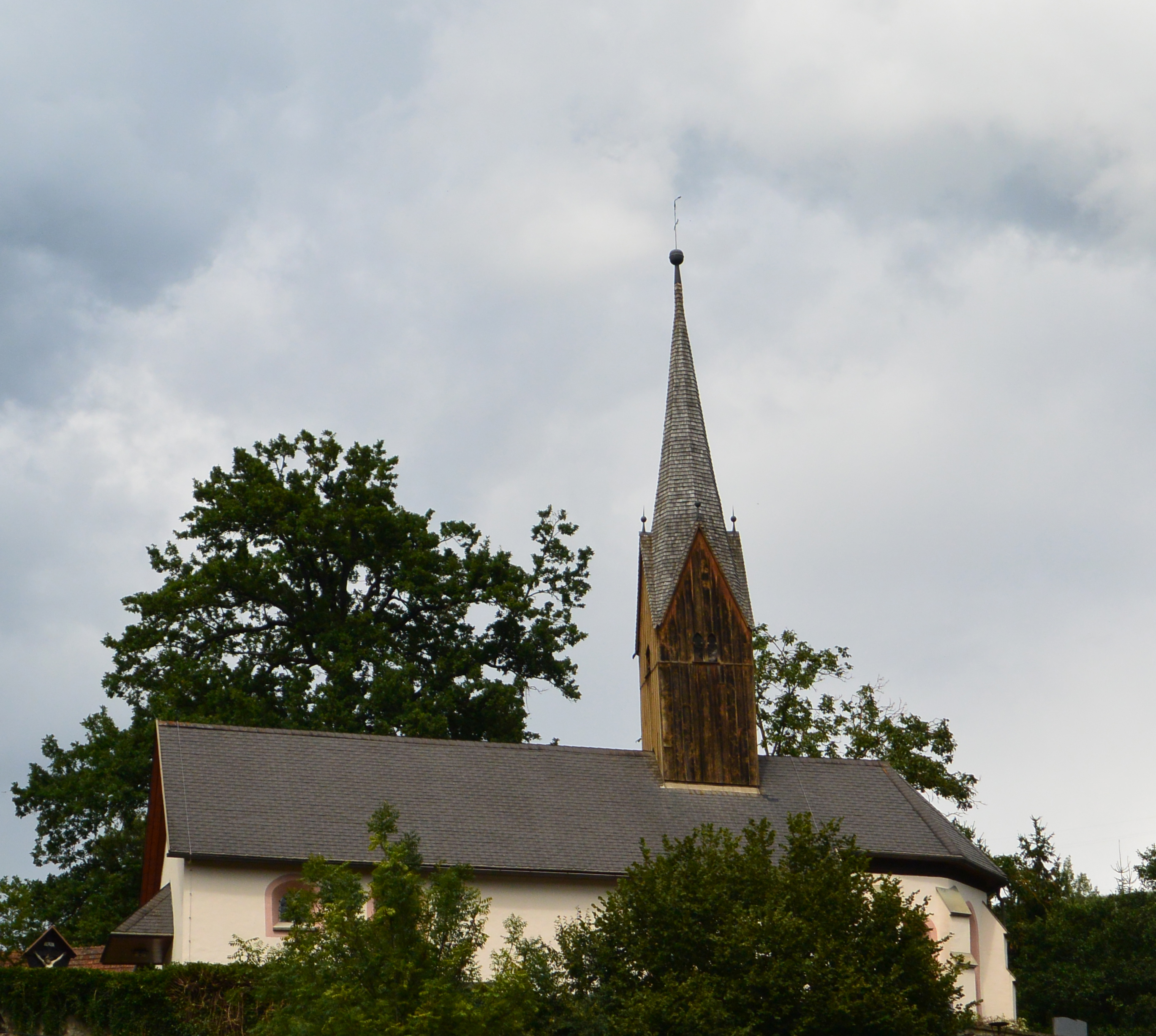 Parish church Sankt Paul ob Ferndorf in the community of Ferndorf